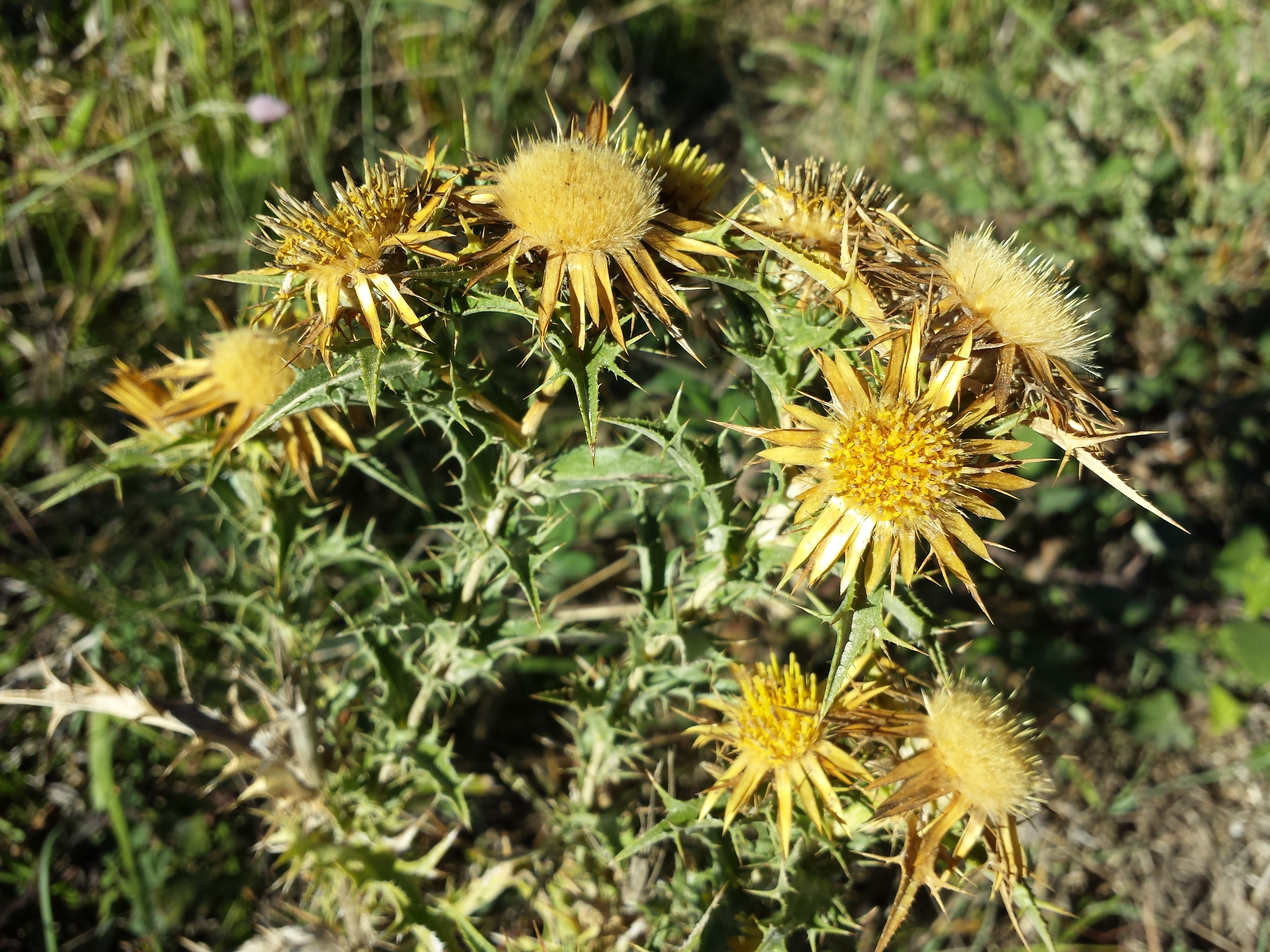 Capitula Taxonym: Carlina corymbosa ss Rottensteiner: Exkursionsflora für Istrien ISBN 978-3-85328-067-6 Location: next to city ​​ruins of Monkodonja, community Rovinj, Istria, Croatia Habitat: wayside